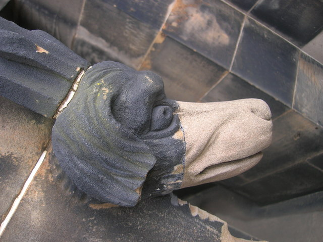 Carving Detail on Scott Monument